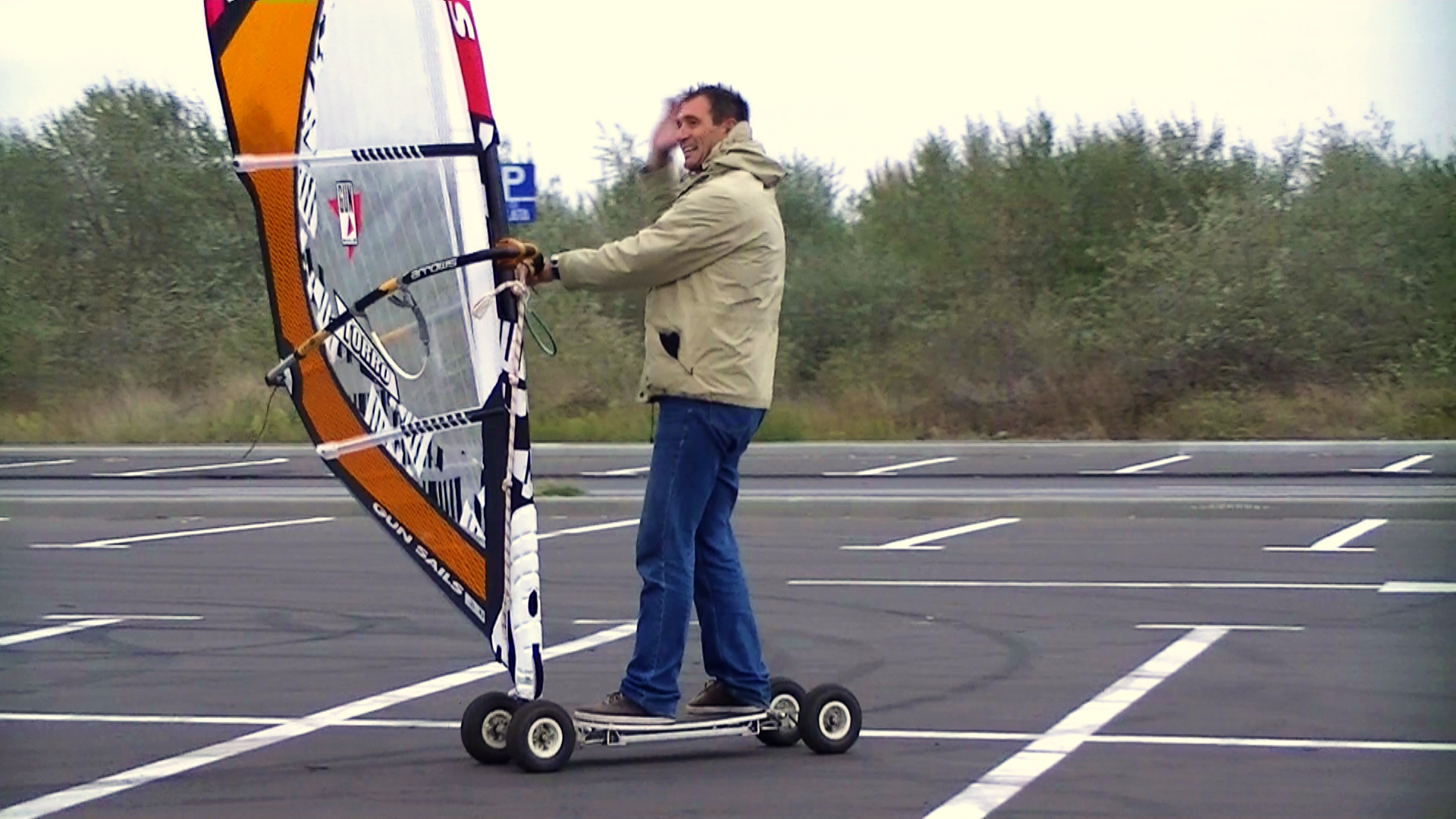 WINDSURFING